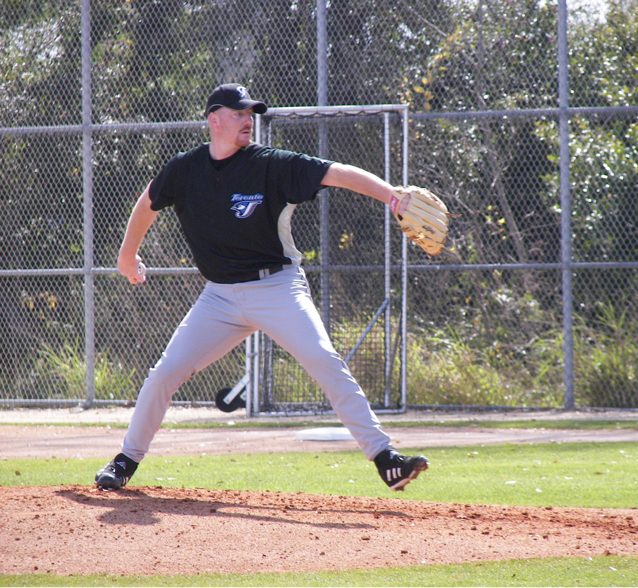 Toronto Blue Jays pitcher John Thomson during a spring training workout at the Blue Jays' spring training complex in Dunedin, Florida.